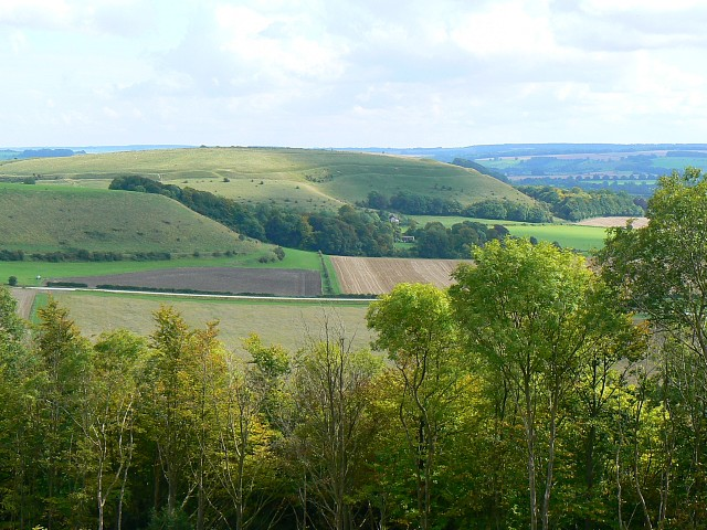 View south-east from Battlesbury Hill, near Warminster This is a 'view from' shot since none of the image shows the viewpoint square. The trees in the foreground are at ST901454 and the smaller hill at the left is Middle Hill at ST907447. The larger hill to its right is Scratchbury Hill in squares ST9044 and ST9144.